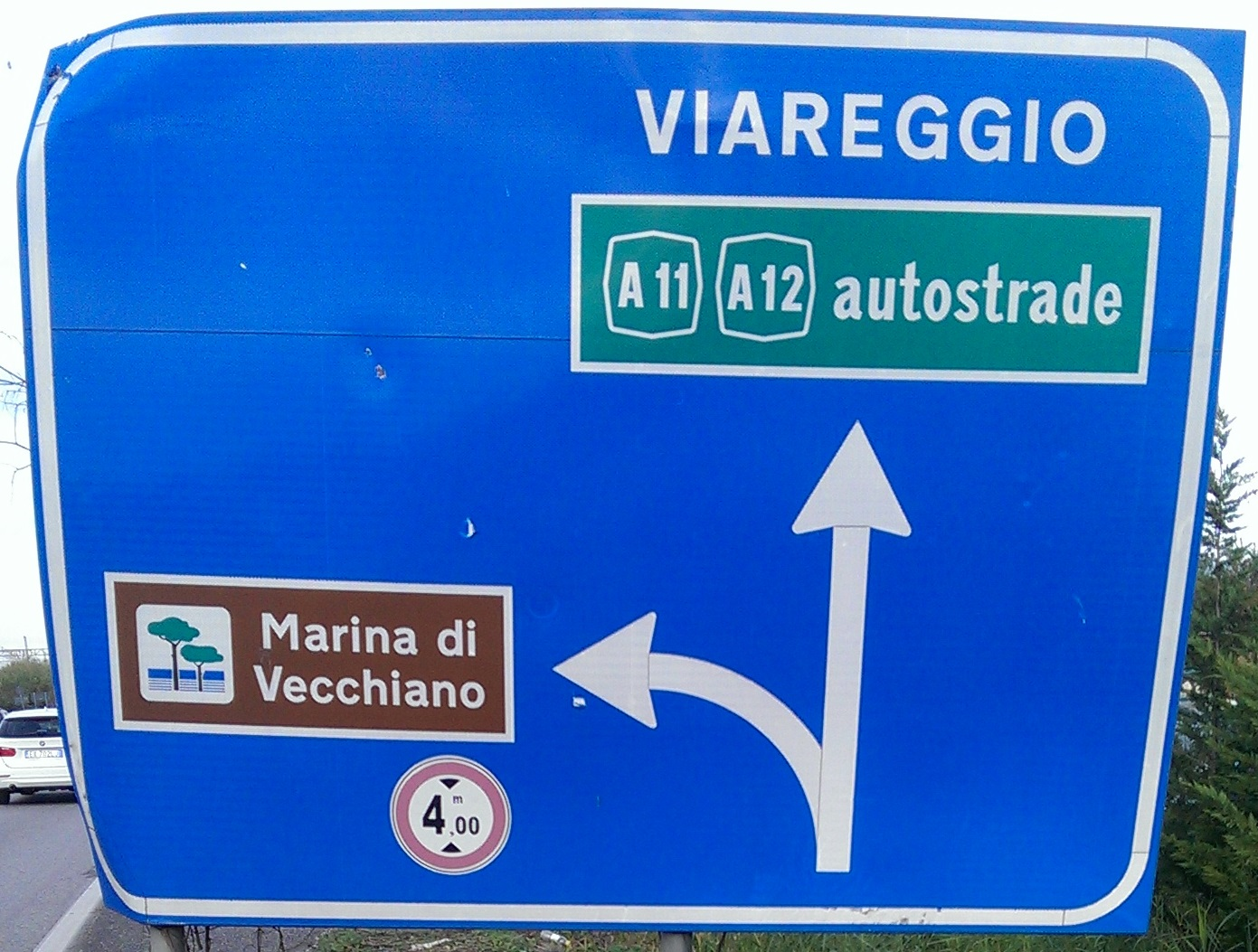 A road sign using both Alfabeto Normale and Alfabeto Stretto fonts. Located on SS1 Aurelia road, outside Migliarino